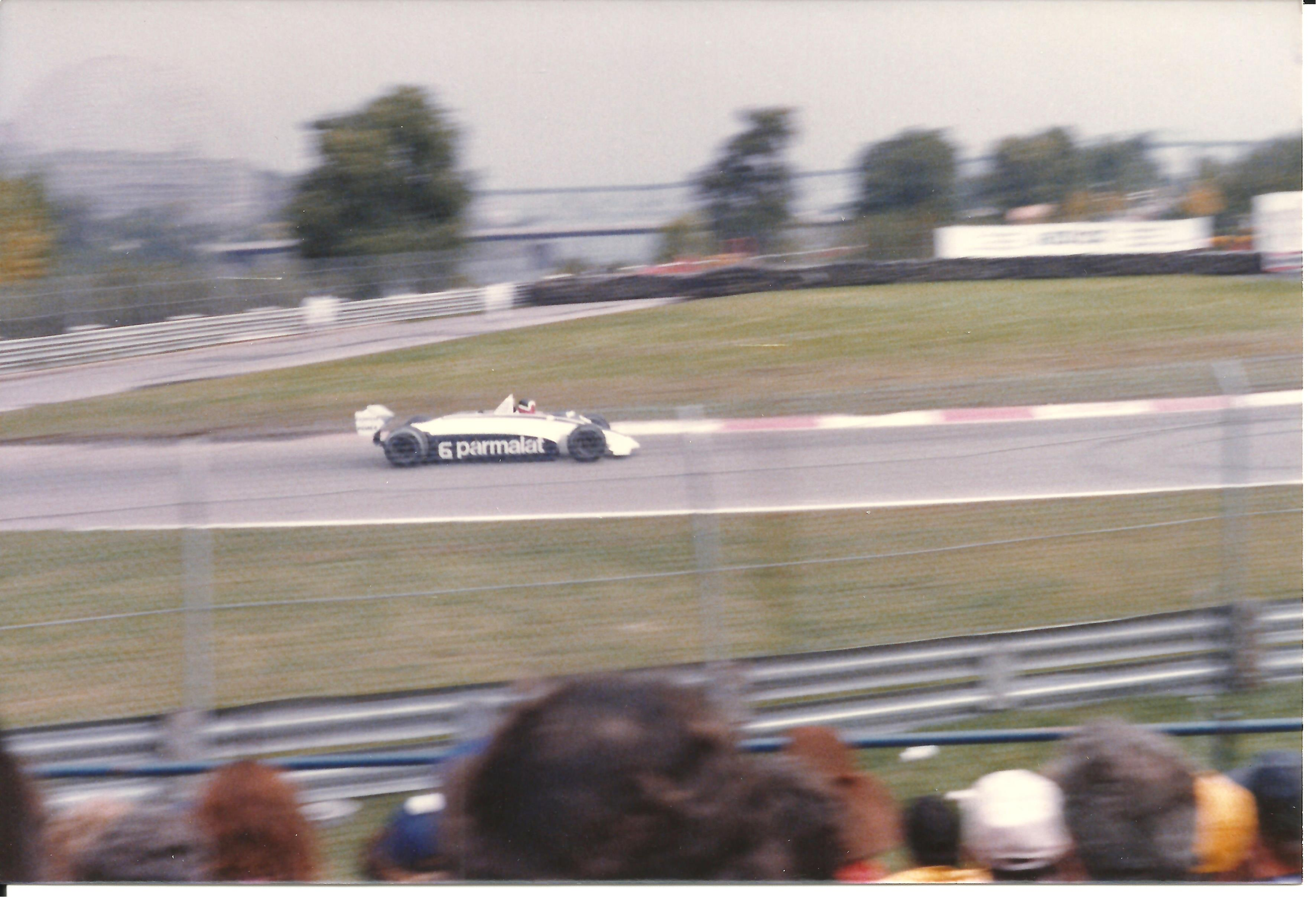 1981 Canadian Grand Prix in Montreal - Formula 1 - Héctor Rebaque - Brabham-Ford - Parmalat Racing Team #6 Sept 27th 1981